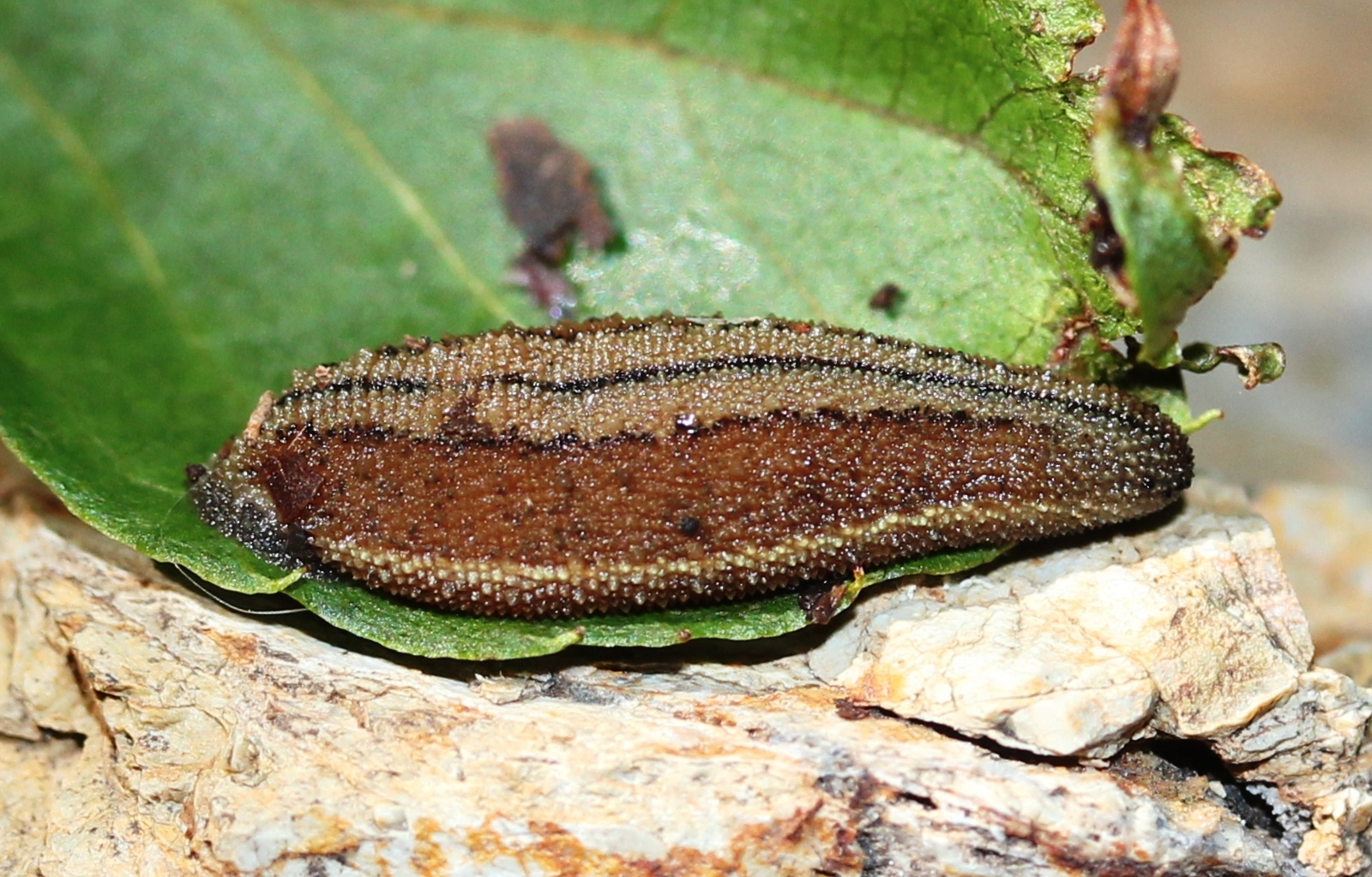 Haemadipsa zeylanica japonica in Japan.